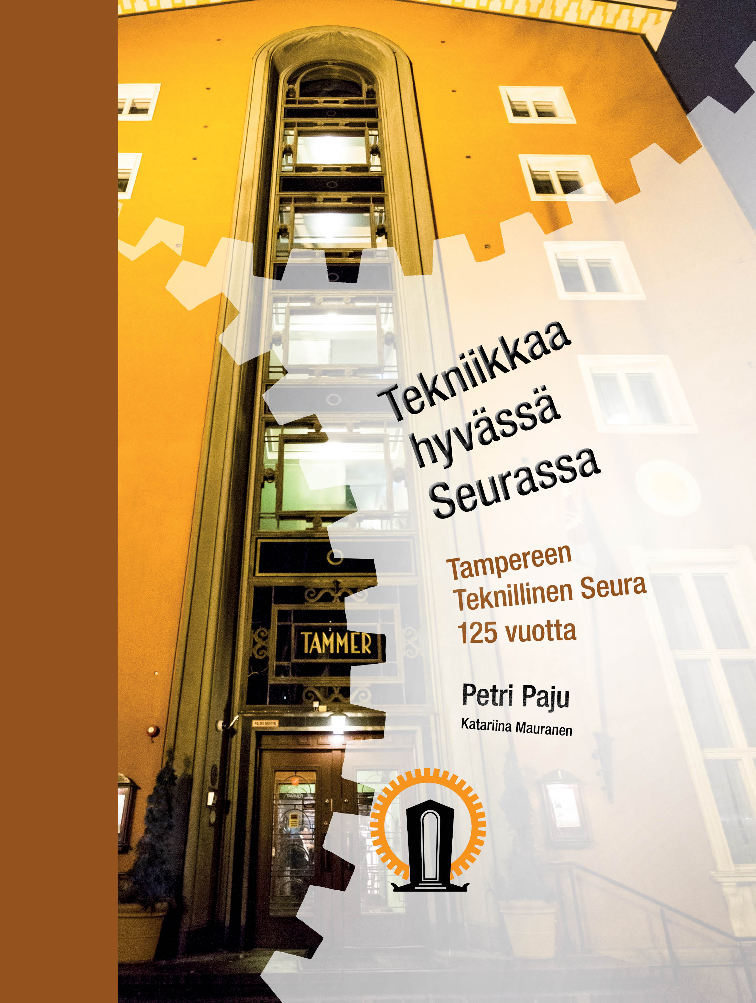 A book summarizing the 125 years of Tampere Technical Society.